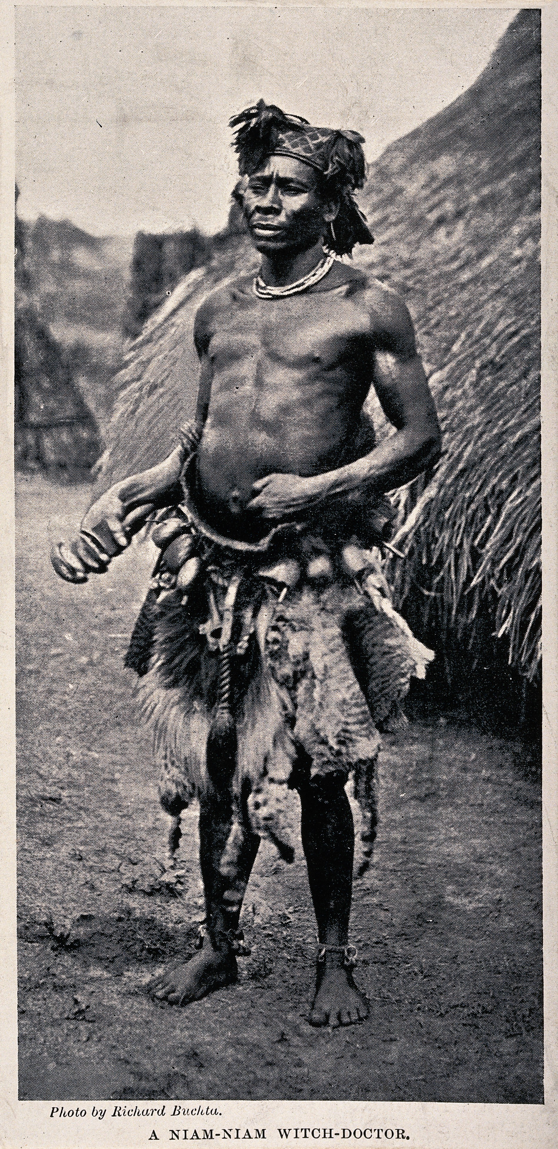 A Niam-Niam medicine man or shaman, equatorial Africa. Halftone after R. Buchta. Iconographic Collections Keywords: Richard Buchta